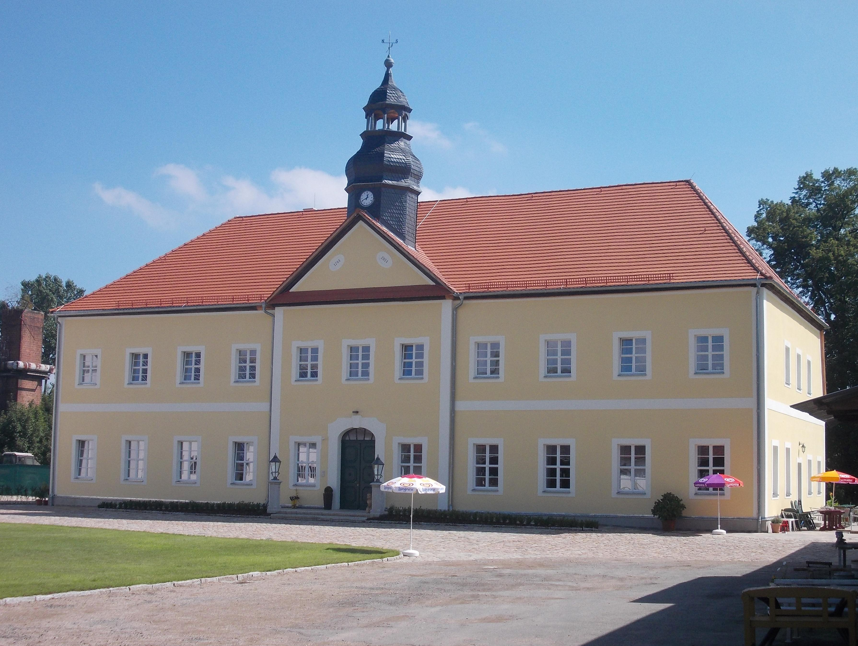 Manor house of Niedermosel estate (Zwickau, Saxony)